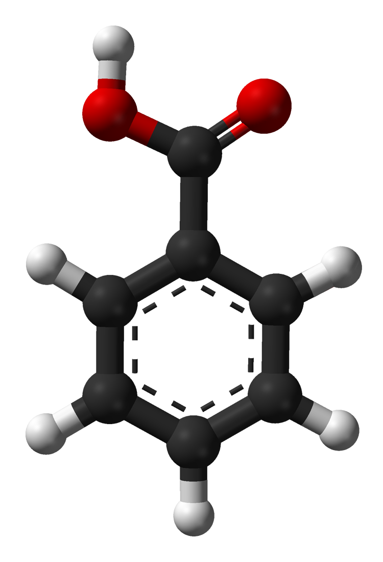 Ball and stick model of the benzoic acid molecule.